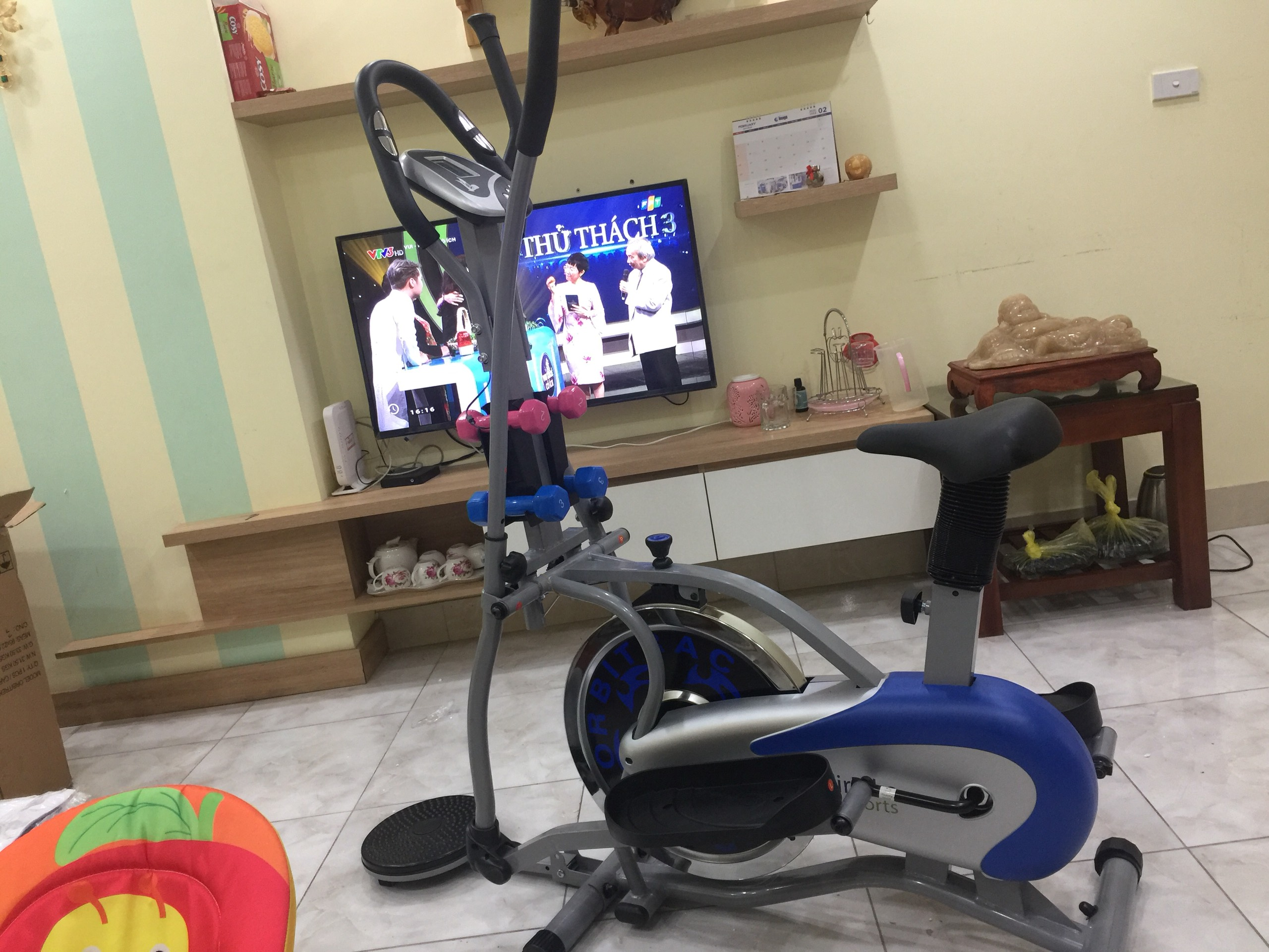 exercise bike for best my life